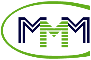 Depiction of the MMM company, which was behind the MMM Ponzi Scheme